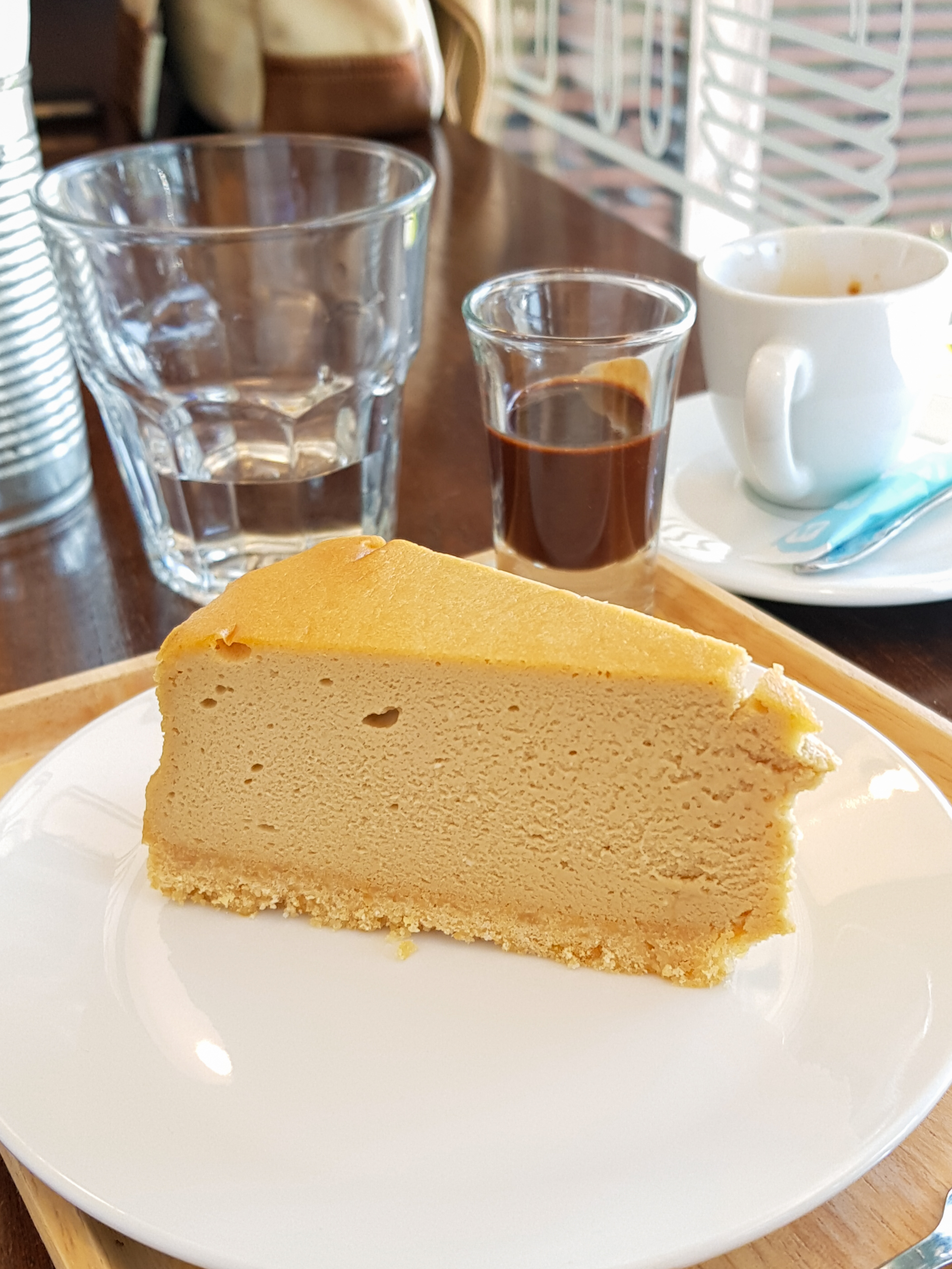 A Baileys cheesecake served with a Baileys and dark chocolate sauce on the side in a shot glass; at October Cafe in Chiang Mai, Thailand